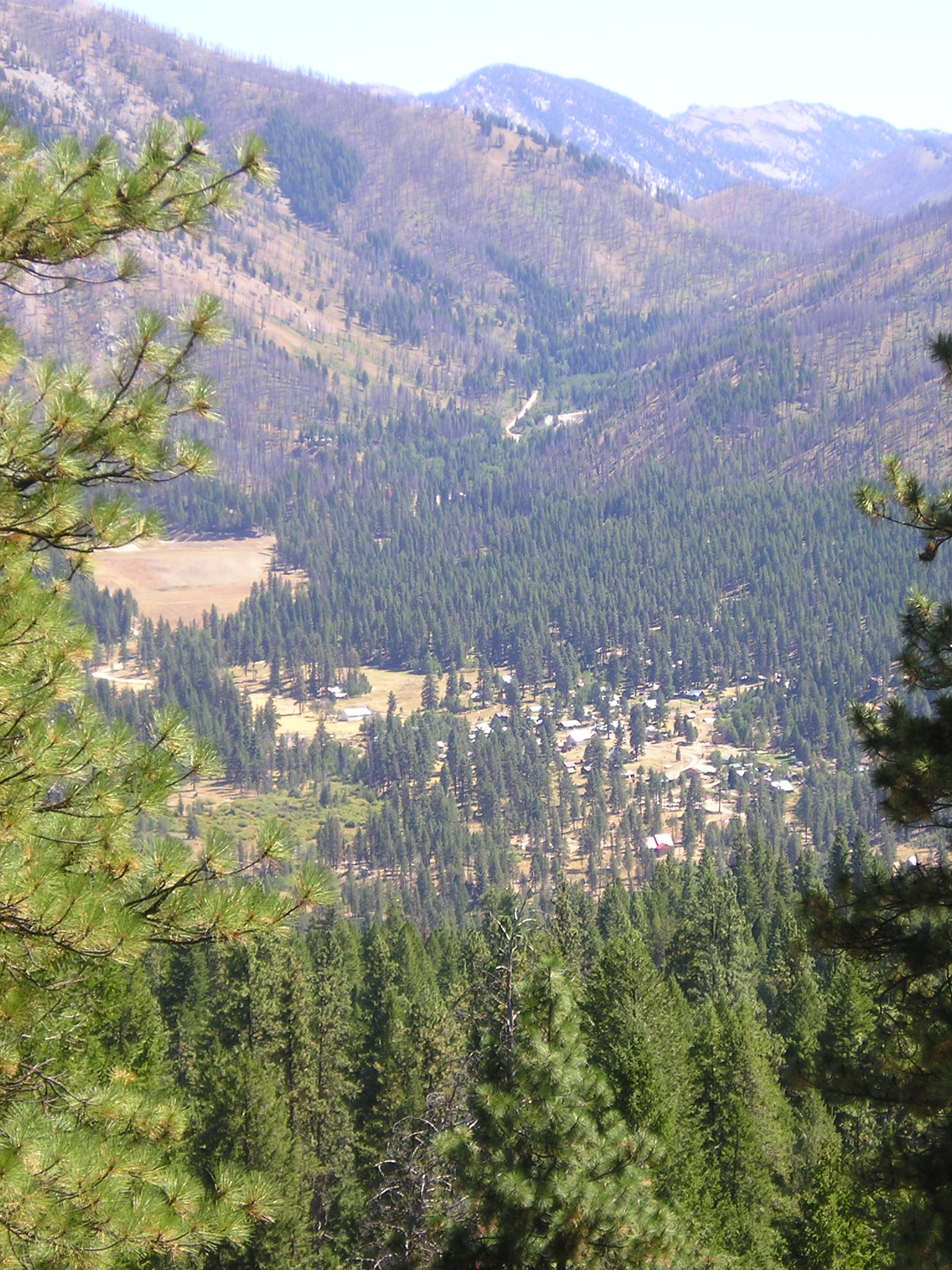 The town of Atlanta, Idaho. Taken by John Hazlett ("jSarek") on 8/31/2005. Photo taken from China Basin Road, north of town.